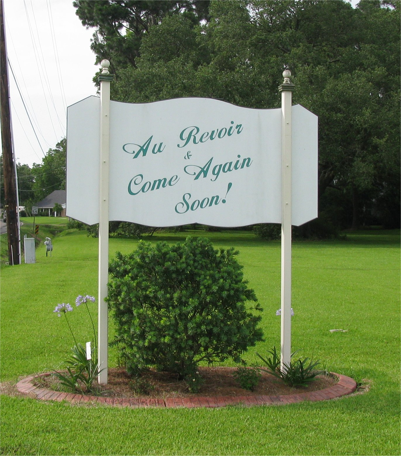 Rear of "Welcome to Loreauville" sign at North end of Village of Loreauville, Louisiana, USA